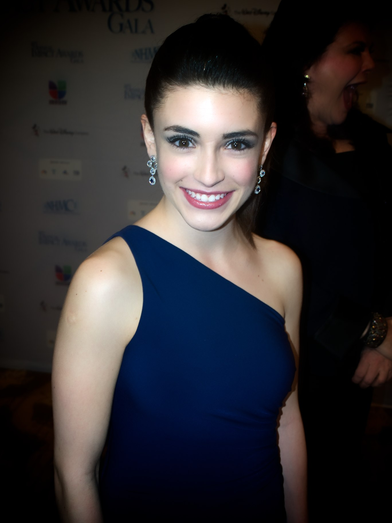 Daniela Bobadilla at the National Hispanic Media Coalition 2012 Impact Gala